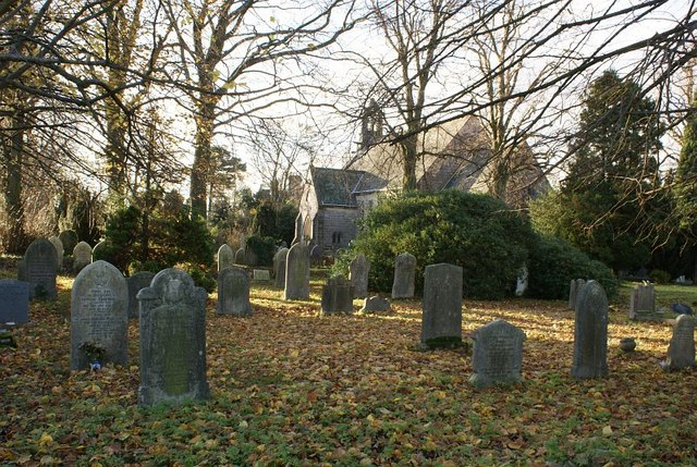 Parish church of St John the Evangelist, Hazelwood, Derbyshire, seen from the east